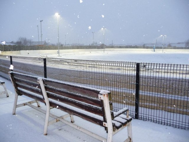 Track-side bench, Kinsley Greyhound Stadium